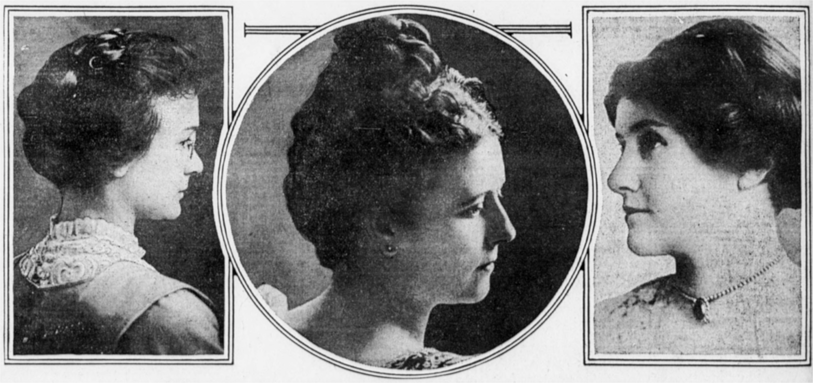 Three women in public service in Oregon in 1915, as described in the Philadelphia Evening Public Ledger, March 2, 1915. Original caption:THREE WOMEN WHO HAVE BEEN NOTABLY SUCCESSFUL IN PUBLIC LIFE IN OREGON Miss Marian Towne, on the right, the first woman ever elected to the Oregon Legislature, serving in tho lower house. Miss Katherine Clarke, in centre, was appointed to a vacancy in the State Senate by Governor West. As there was some doubt about tho legality of the appointment, Miss Clarke insisted on a special election, in which she won over two male opponents. Miss Fern Hobbs was secretary to ex-Governor West. Sho showed so much ability he made her a member of the State Industrial Accident Commission, which decides all claims under the employers' liability law.